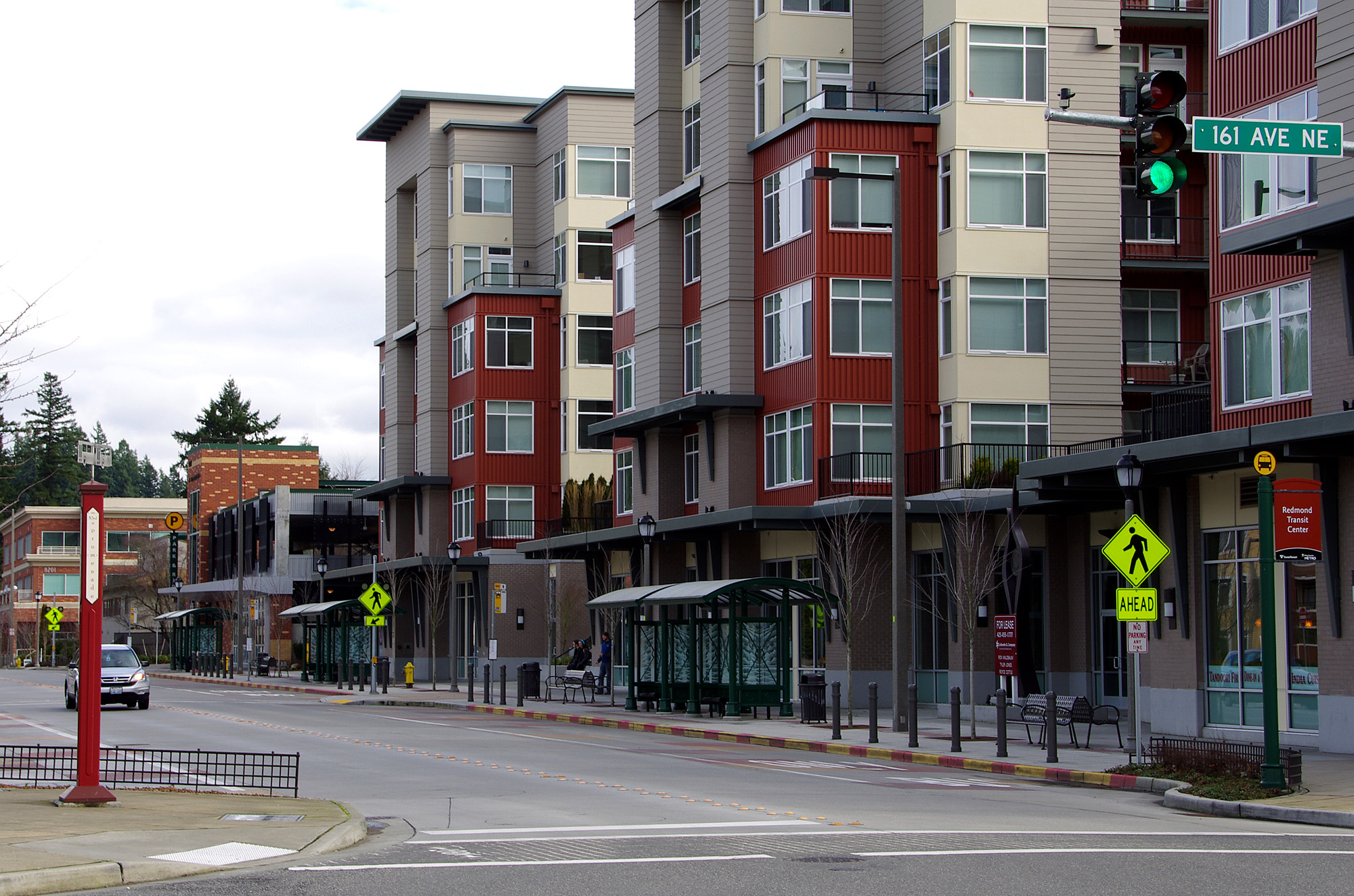 Redmond Transit Center